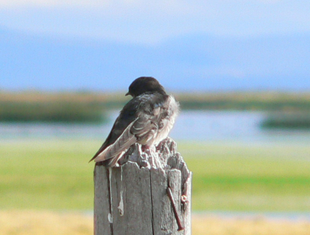 An Andean Swallow, Lago Junin, Ondores, Junin.